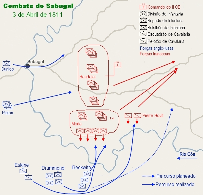 Map indicating the forces that participated in the Battle of the Sabugal and their movements.